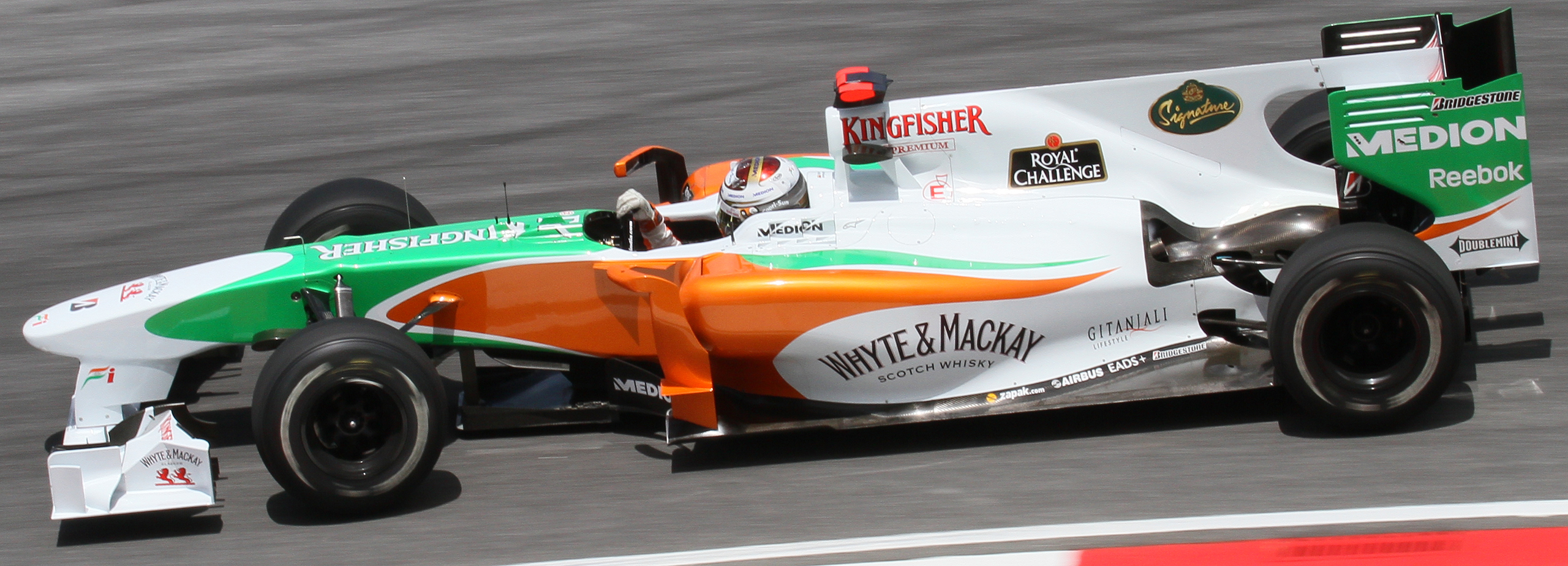 Formula One 2010 Rd.3 Malaysian GP: Adrian Sutil (Force India) during Friday 2nd Free Practice session.